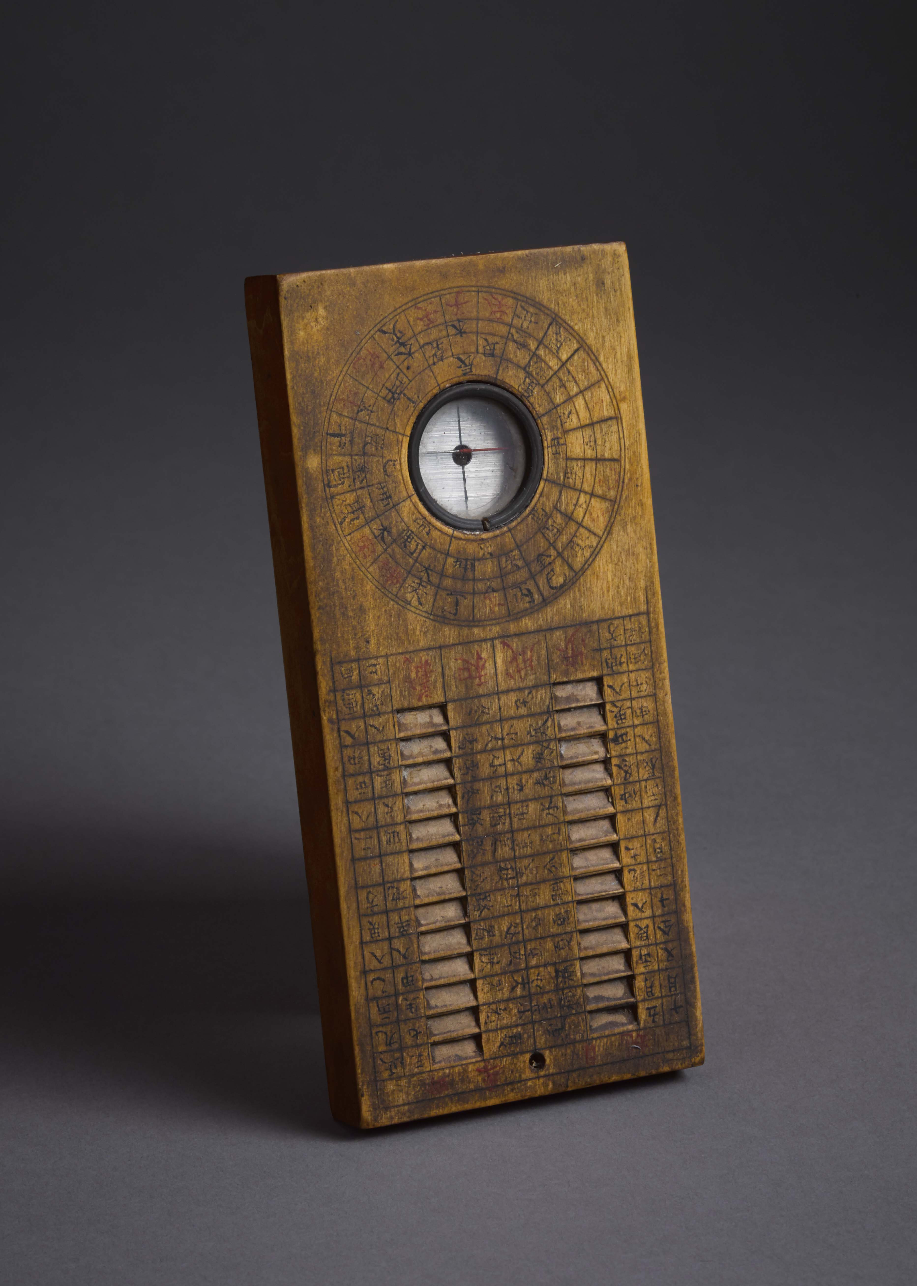 Xiuning County, located in China’s Anhui Province, is a traditional place of manufacture for wooden feng shui compasses, such as this one. This particular compass was brought to Japan during the 19th century. This object is currently housed in the Oxford College Archives of Emory University.